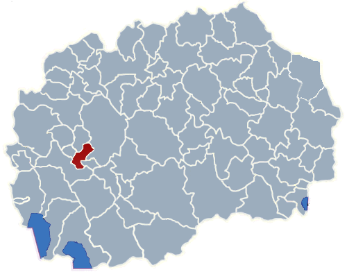 Category:Administrative units of the Republic of Macedonia ÐžÐ¿Ð¸Ñ Map of VraneÅ¡tica municipality.